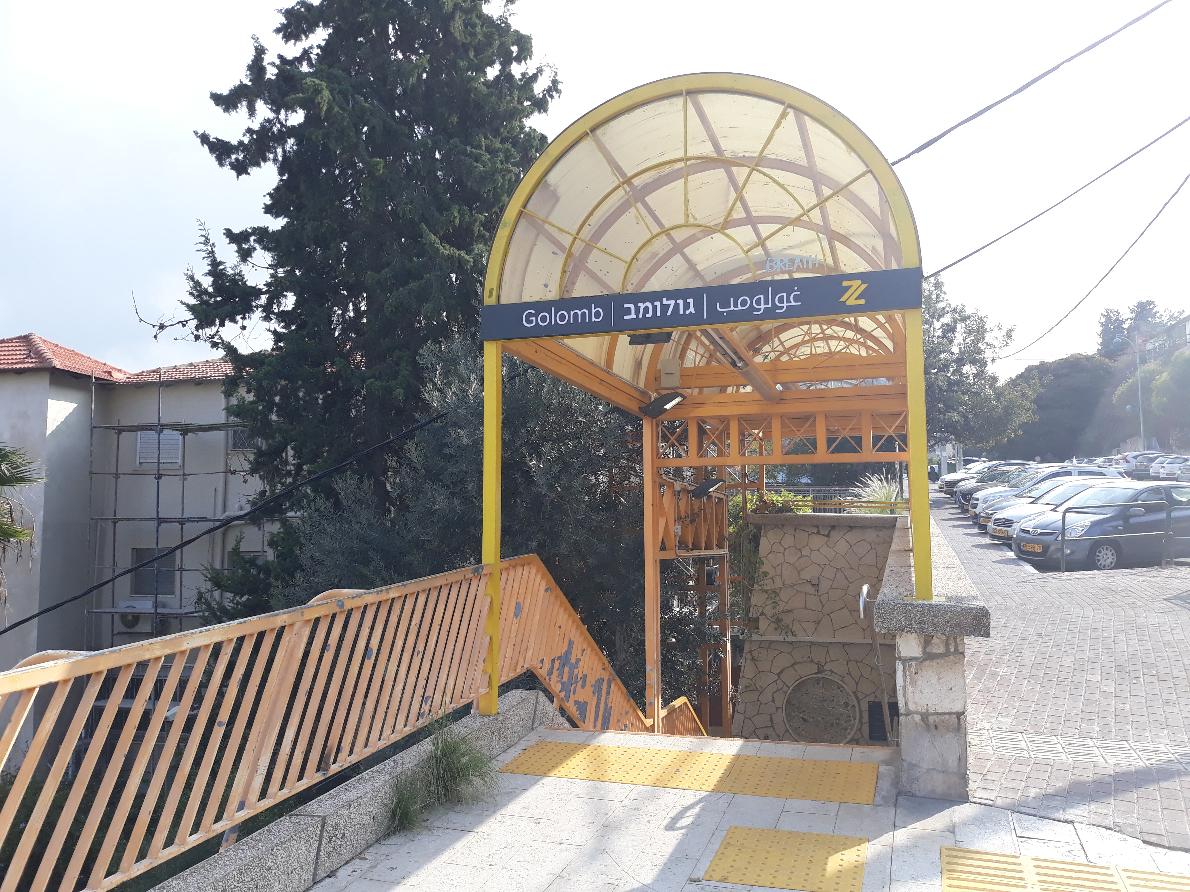 Carmelit subway in Haifa after its reopening in 2018